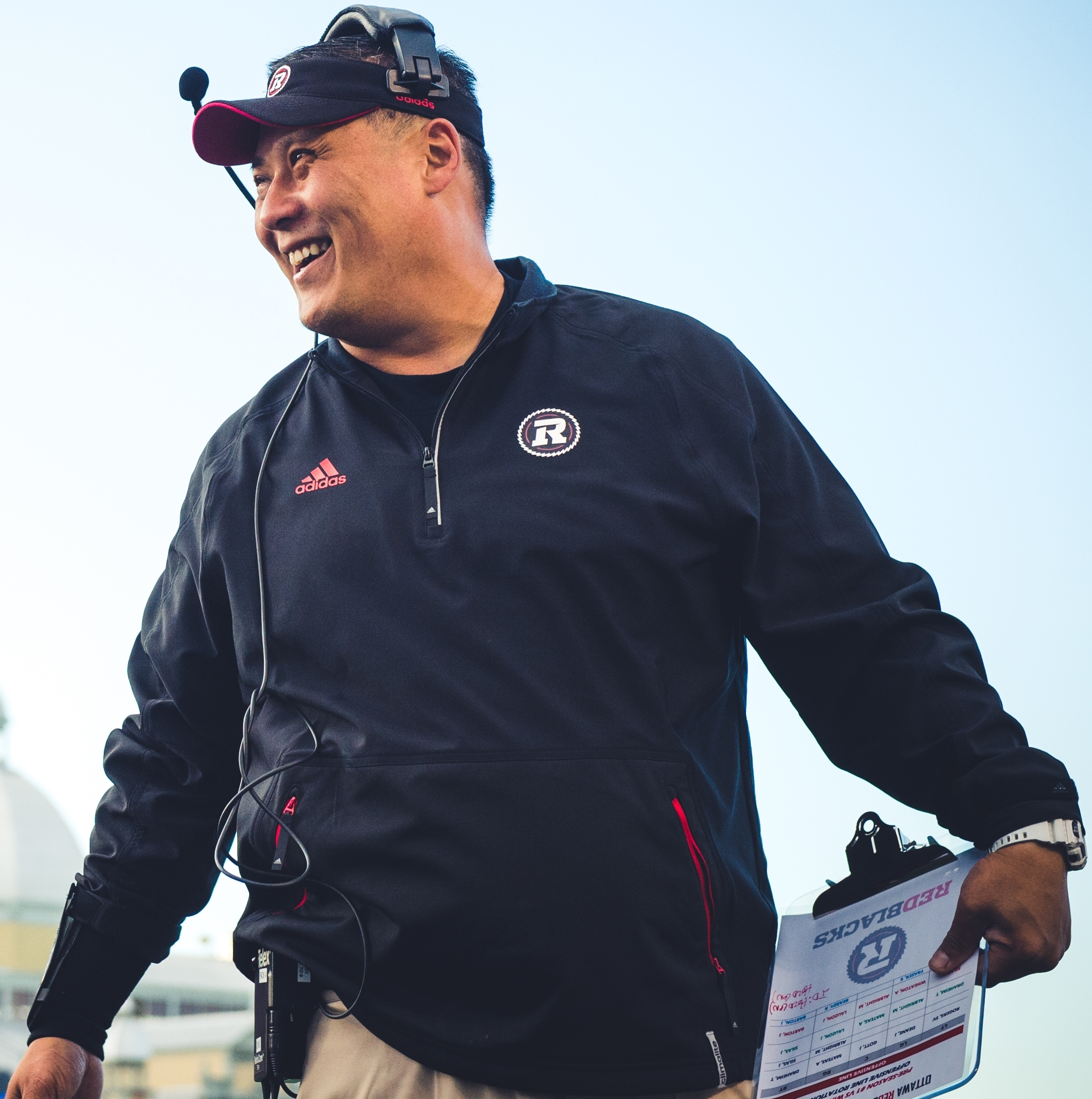 Ottawa REDBLACKS offensive line coach Bryan Chiu during the pre-season game against the Winnipeg Blue Bombers at TD Place in Ottawa, ON on Monday June 13, 2016. (Photo: Johany Jutras)